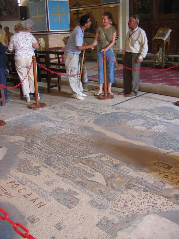 mosaic of the map as situated in the St George church in Madaba (Jordan)